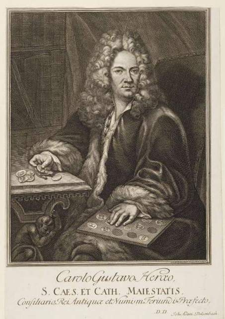 Carl Gustav Heraeus, german Antiquarian und Numismatican, Etching by Johann Adam Delsenbach made in 1719; today in the Herzog Anton Ulrich-Museum (Inv.-Nr. 4479)